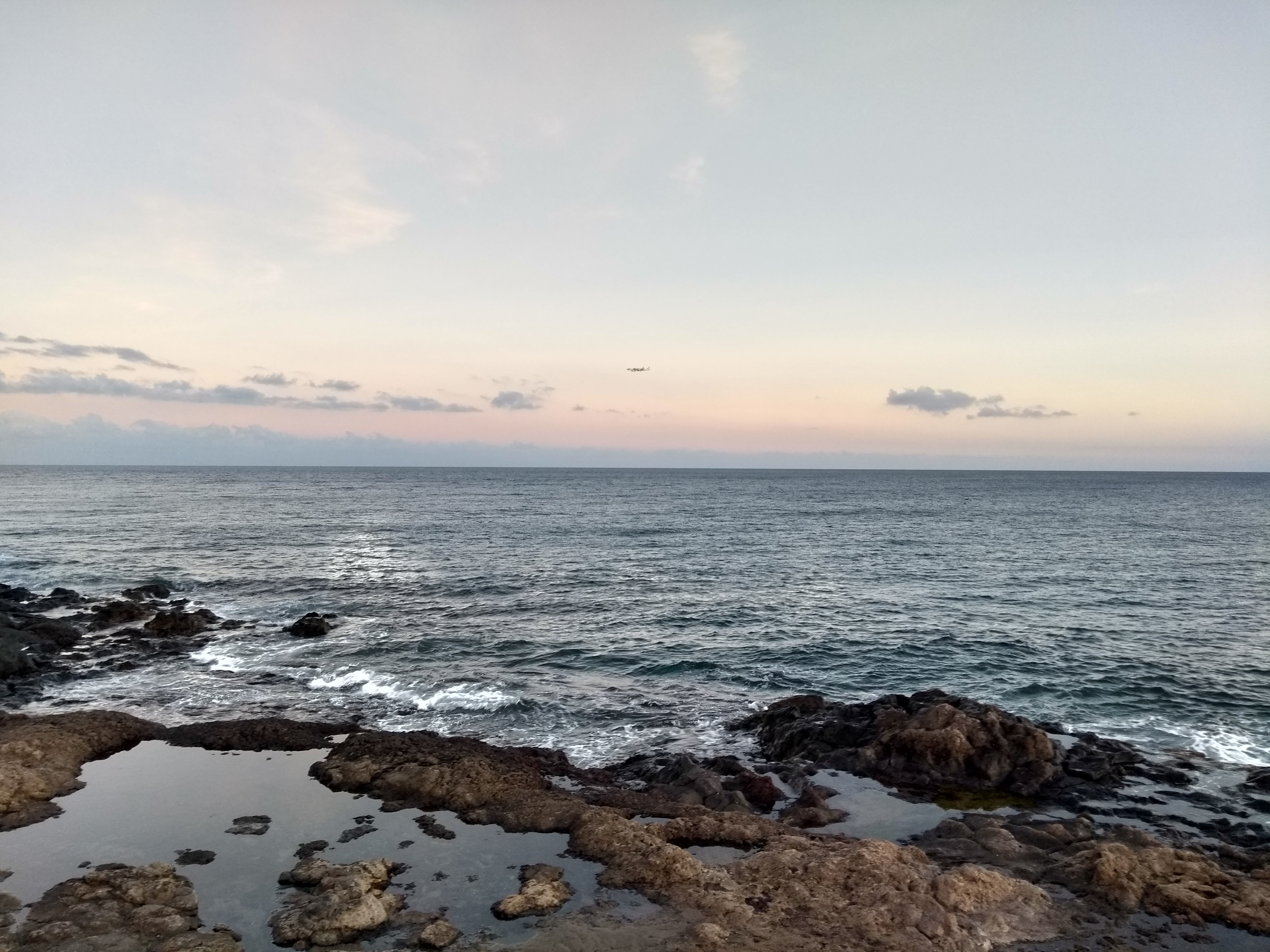 December evening 2017, Atlantic Ocean, Los Picollos, Lanzarote